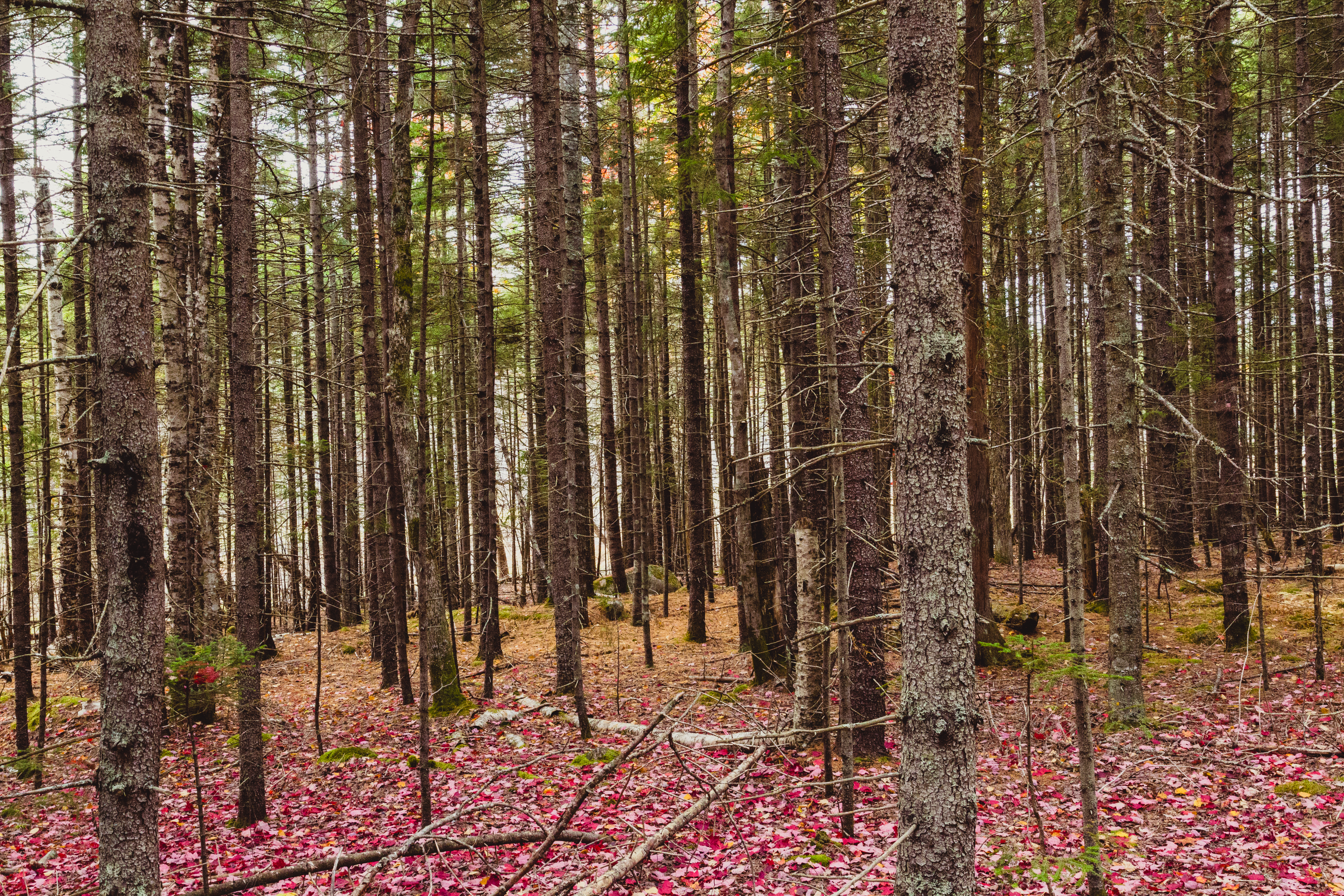 A thick forest of trees on an October afternoon along Long Pond Fire Road in Acadia National Park on Mt. Desert Island, Maine.